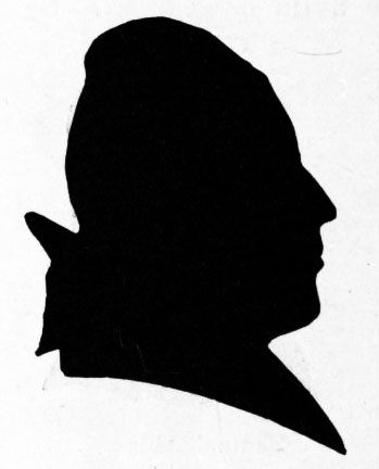 Carl Schylander, Swedish actor. Picture published in Volume 1 (of 8) of Nils Personne’s history of Swedish theatre.